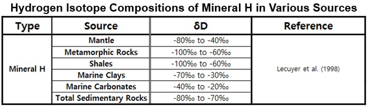 References in a more detailed format are included in the main text.